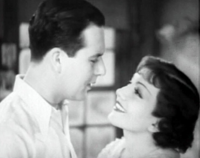 Cropped screenshot of Ben Lyon and Claudette Colbert from the film I Cover the Waterfront (1933).